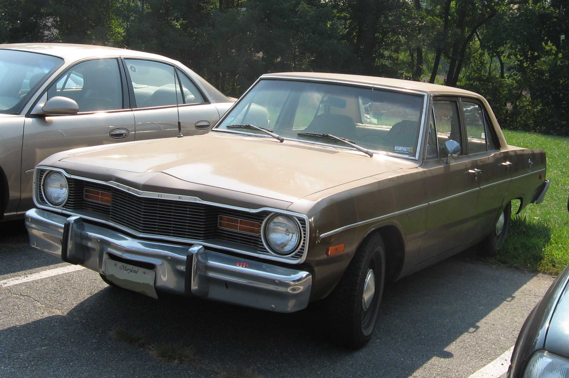 1970-1974 Dodge Dart photographed in Silver Spring, Maryland, USA.